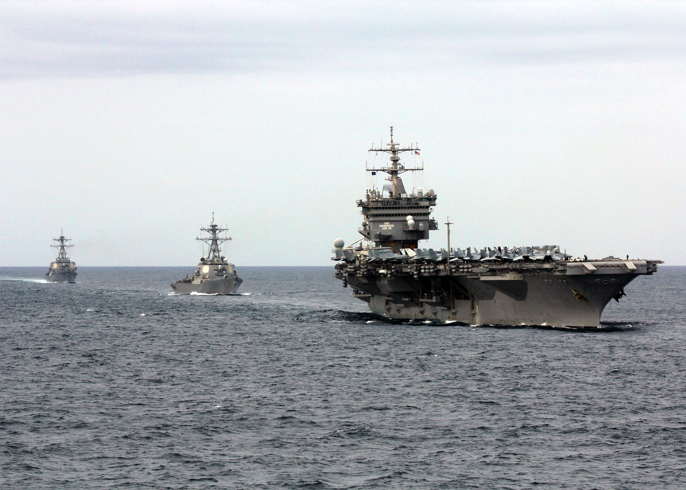 ATLANTIC OCEAN (Feb. 4, 2012) The aircraft carrier USS Enterprise (CVN 65), the Arleigh Burke-class guided-missile destroyers USS Porter (DDG 78) and USS Cole (DDG 67) are underway participating in exercise Bold Alligator 2012. Bold Alligator is the largest naval amphibious exercise in the past 10 years and represents the Navy and Marine Corps' revitalization of the full range of amphibious operations. The exercise focuses on today's fight with today's forces, while showcasing the advantages of seabasing. The exercise will take place Jan. 30 through Feb. 12, 2012, afloat and ashore in and around Virginia and North Carolina. #BA12 (U.S. Navy photo by Mass Communication Specialist 2nd Class Alfredo R. Martinez II/Released) 120204-N-ZZ999-007